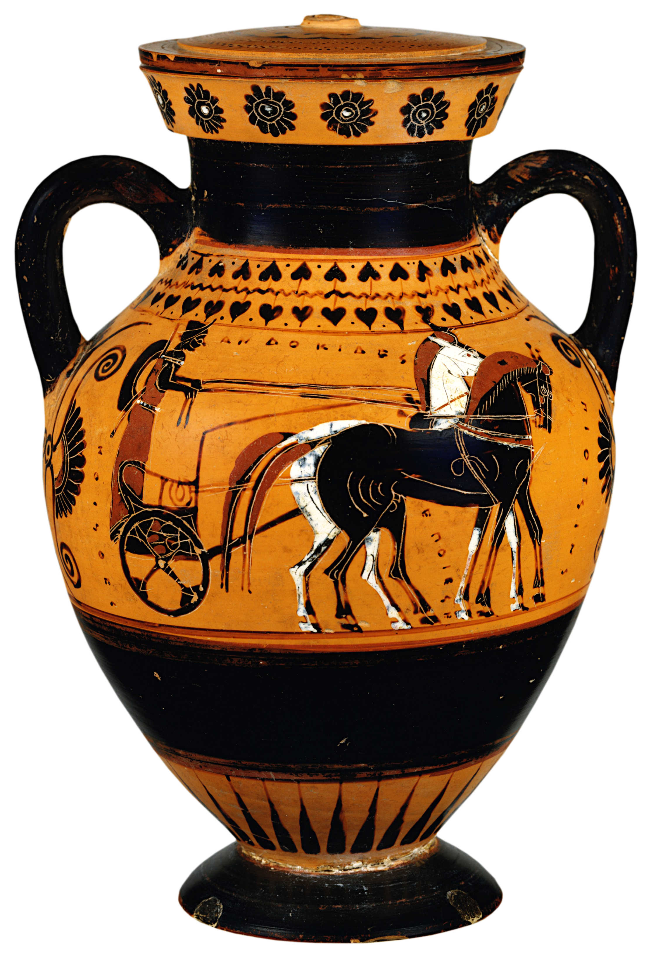 Greek, Attic; Amphora with lid; Vases; Obverse and reverse, chariot Signed by Andokides as potter circa 540 B.C. description from original upload: This is the earliest preserved vase with the signature of the potter Andokides. Thus it constitutes a most important piece of evidence concerning the beginnings of the artist from whose workshop the red-figure technique emerged. It shares features with vases of Nikosthenes and Group E. The shape and the allocation of ornament—the zone of ivy for instance—testify to an independent artistic personality. this version of the image has been white balanced and the background has been edited to solid white